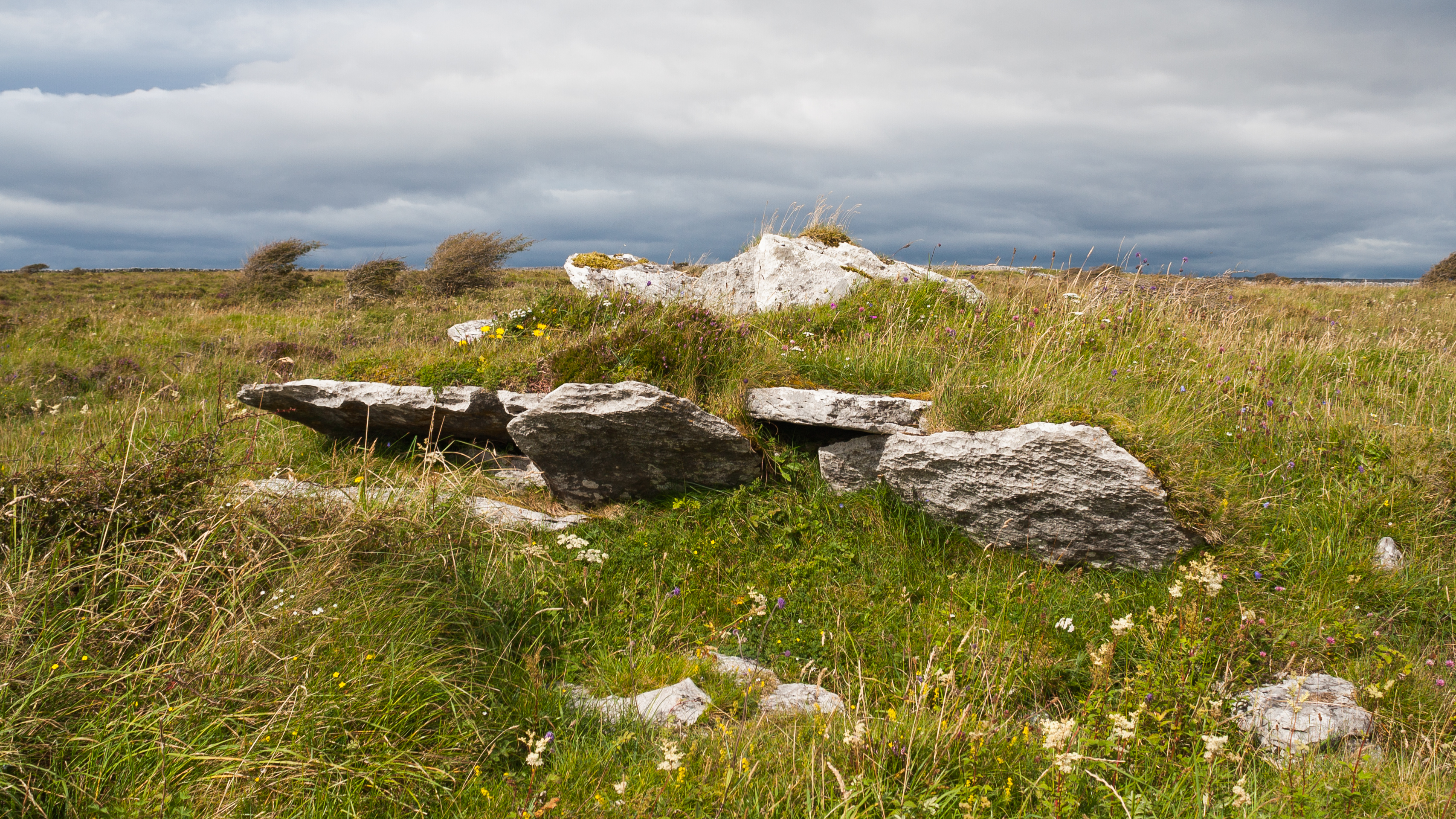 South-east view of the wedge tomb Faunarooska Cl. 4.